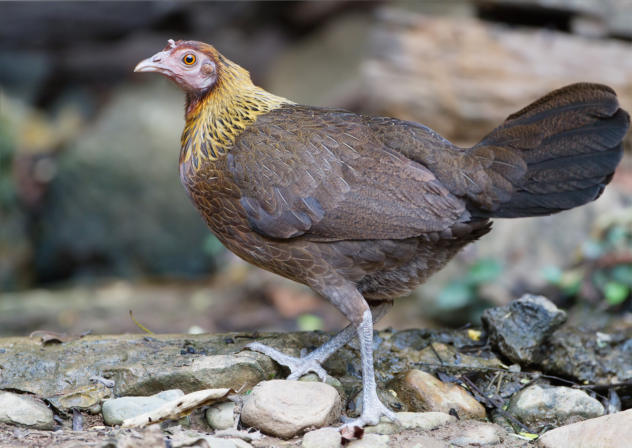 Red Junglefowl (Gallus gallus), Song Phi Nong, Kaeng Krachan, Phetchaburi, Thailand